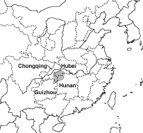 Places where Tujia live.